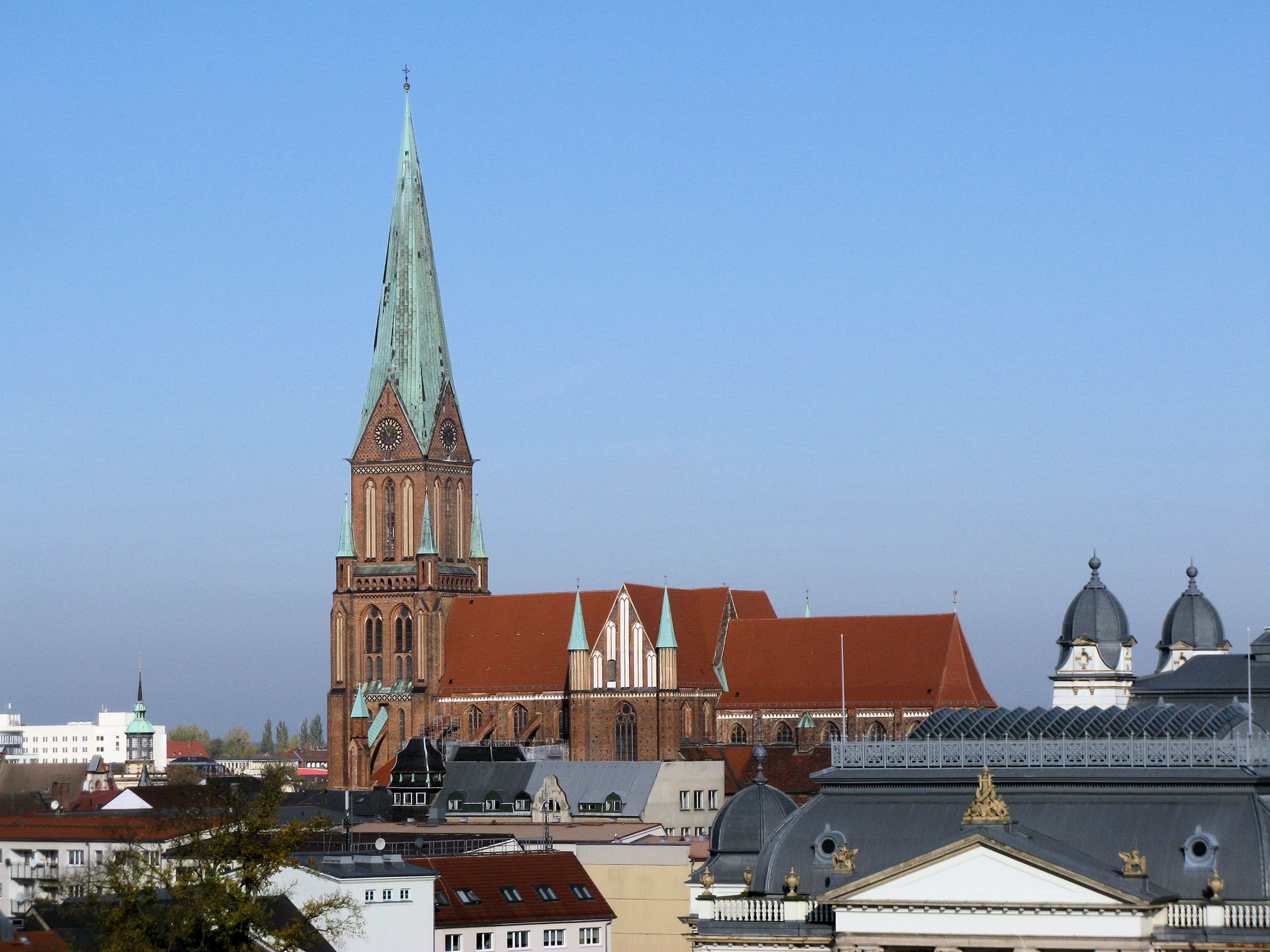 Cathedral in Schwerin, Mecklenburg-Vorpommern, Germany